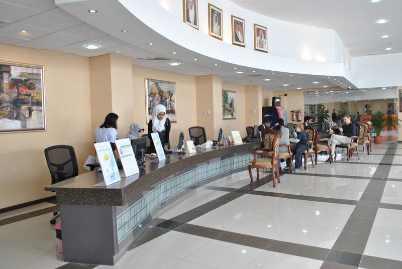 This is the main reception area of the International Hospital of Bahrain